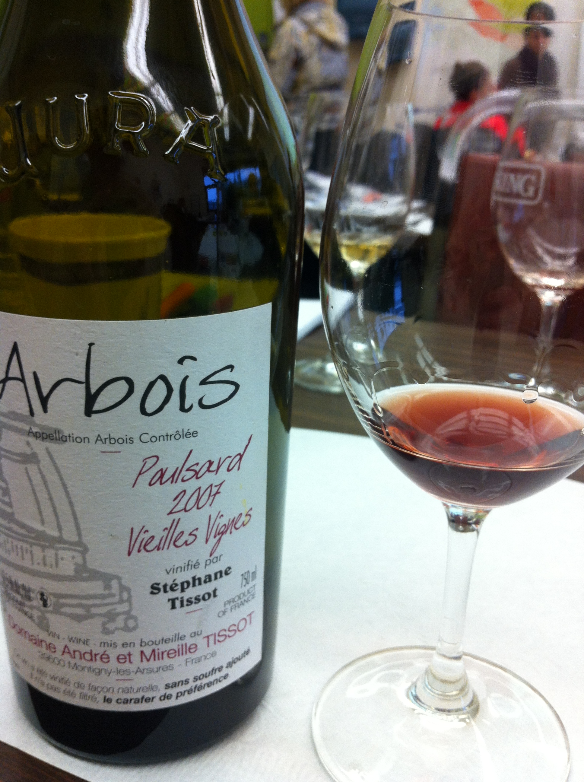 French wine from the Jura wine region made in the Arbois AOC from the Poulsard grape